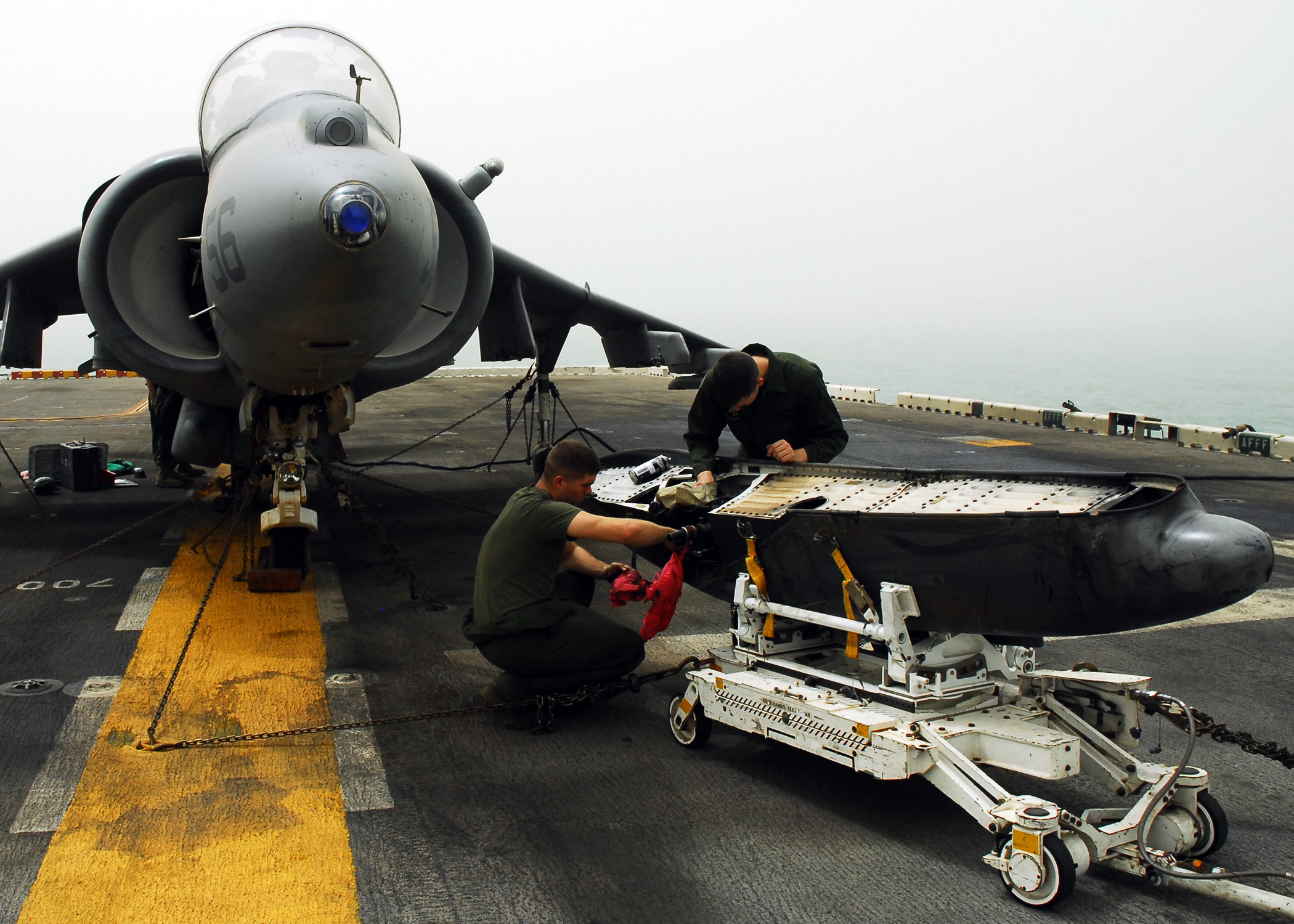 PERSIAN GULF (Sept. 15, 2008) Marines clean and inspect the 25mm cannon of an AV-8B Harrier jet aboard the amphibious assault ship USS Peleliu (LHA 5). Peleliu is deployed supporting maritime security operations in the U.S. 5th Fleet area of responsibility. (U.S. Navy photo by Mass Communication Specialist 2nd Class Dustin Kelling/Released)